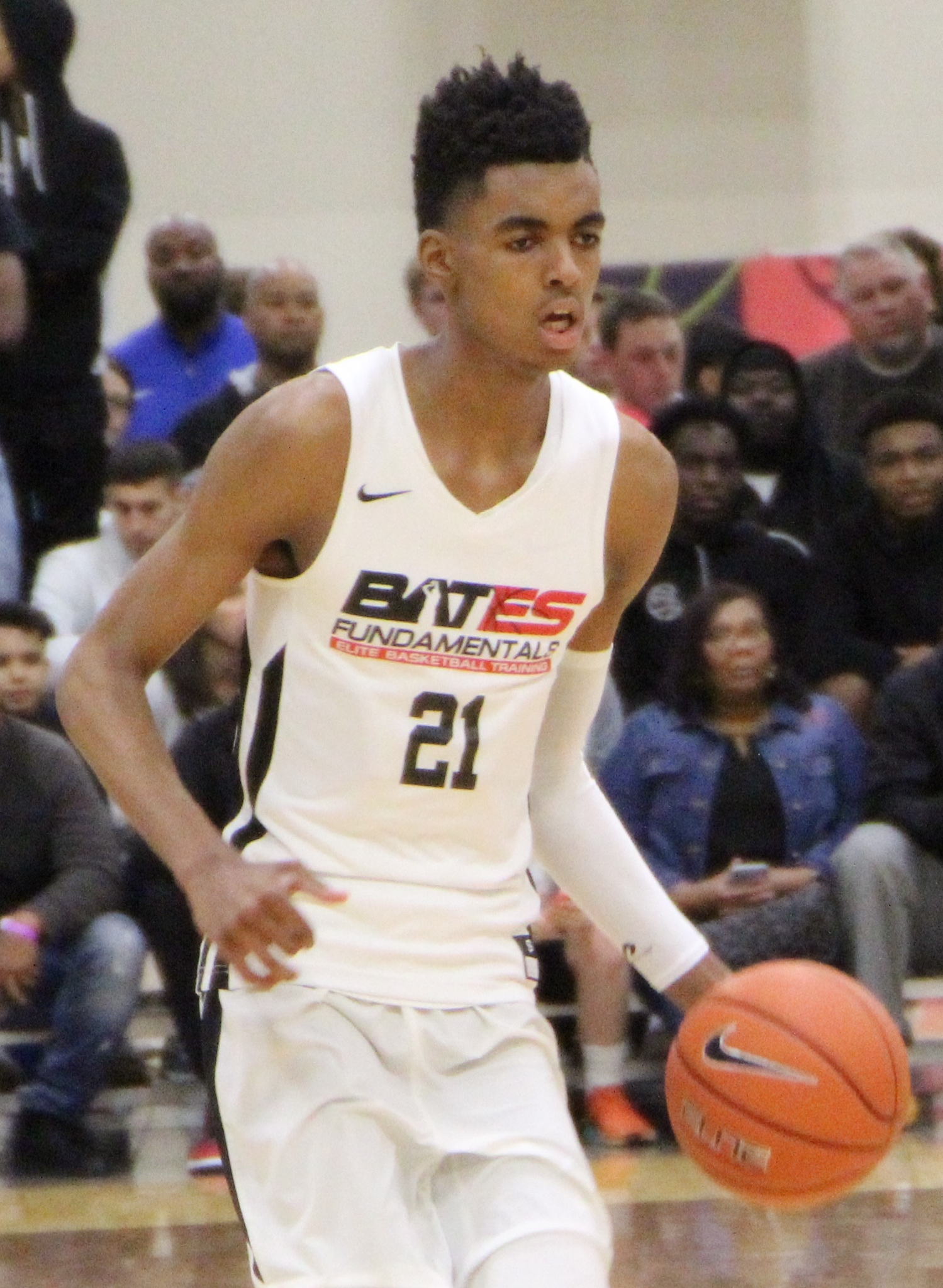 Emoni Bates plays for Bates Fundamentals at the second session of Nike EYBL in Westfield, Indiana, on May 11. Photo: Colin Hass-Hill For more Ohio State basketball coverage, visit .